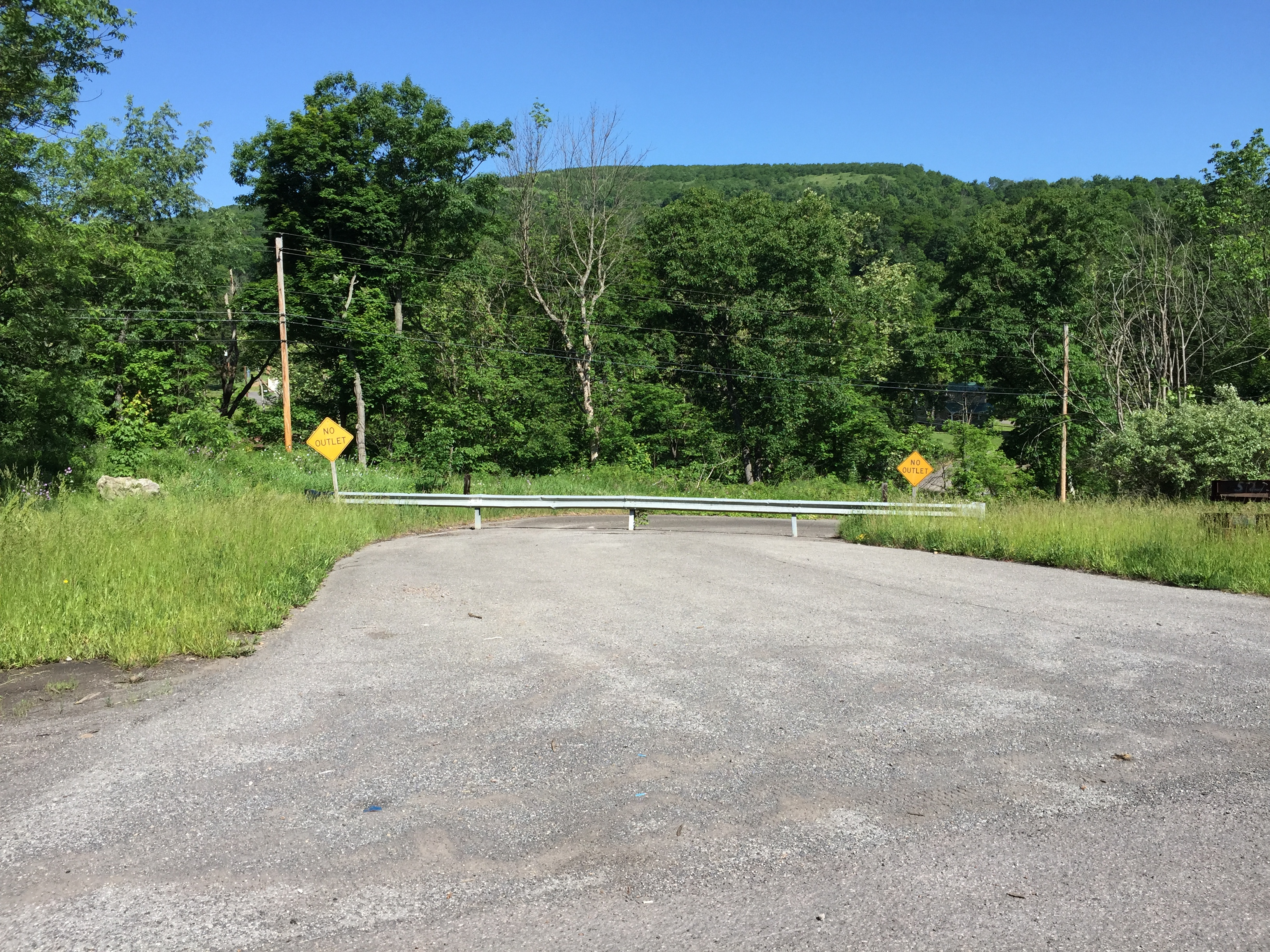 View north along Maryland State Route 939 (Old New Georges Creek Road) at Maryland State Route 36 (New Georges Creek Road) just south of Barton in Allegany County, Maryland